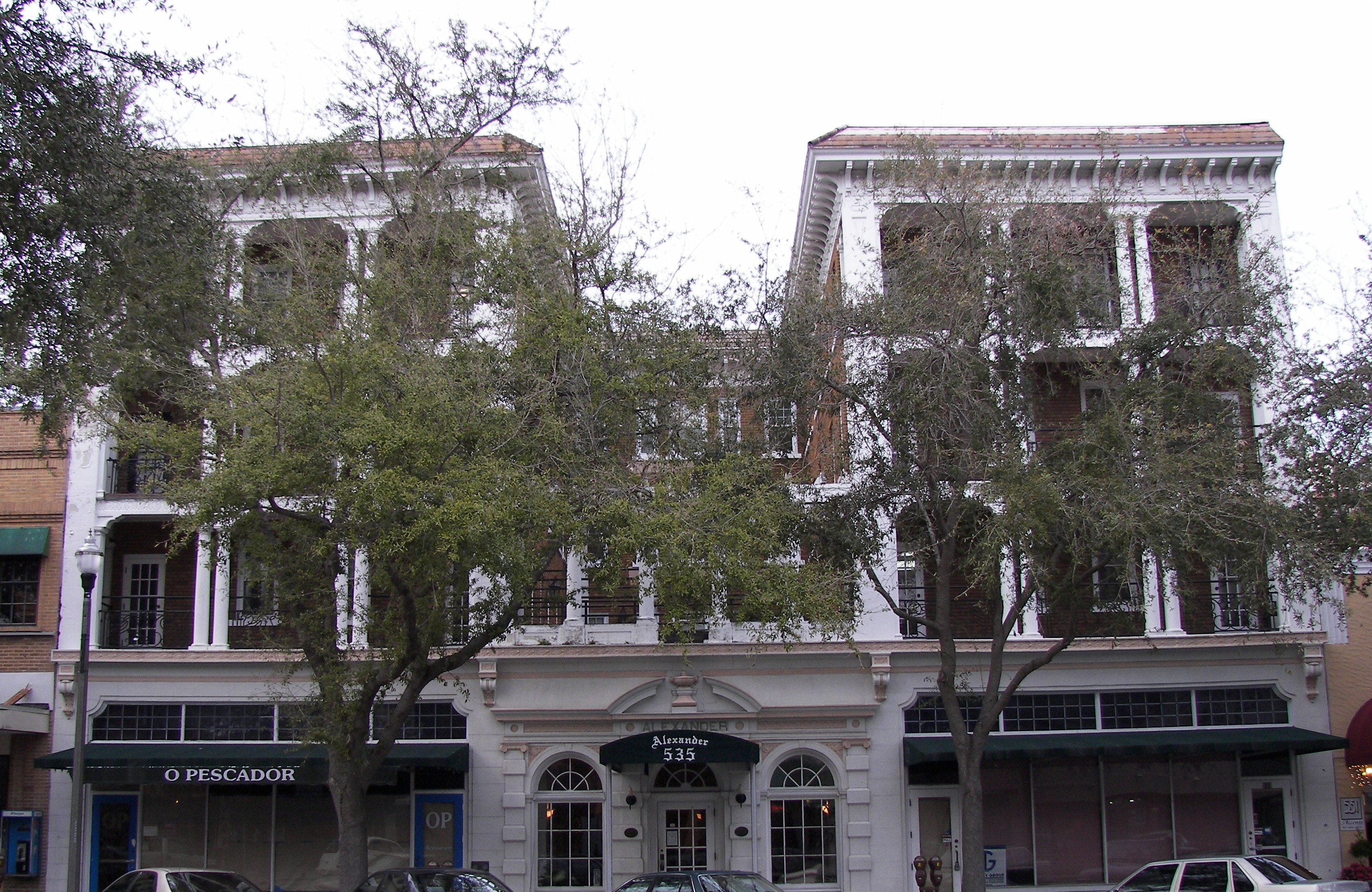 Alexander Hotel in St. Petersburg, Florida. The building is on the National Register of Historic Places.